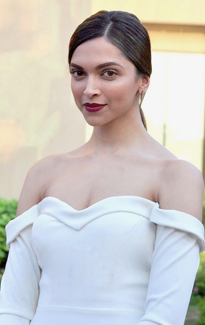 Deepika Padukone promoting Bajirao Mastani in 2015